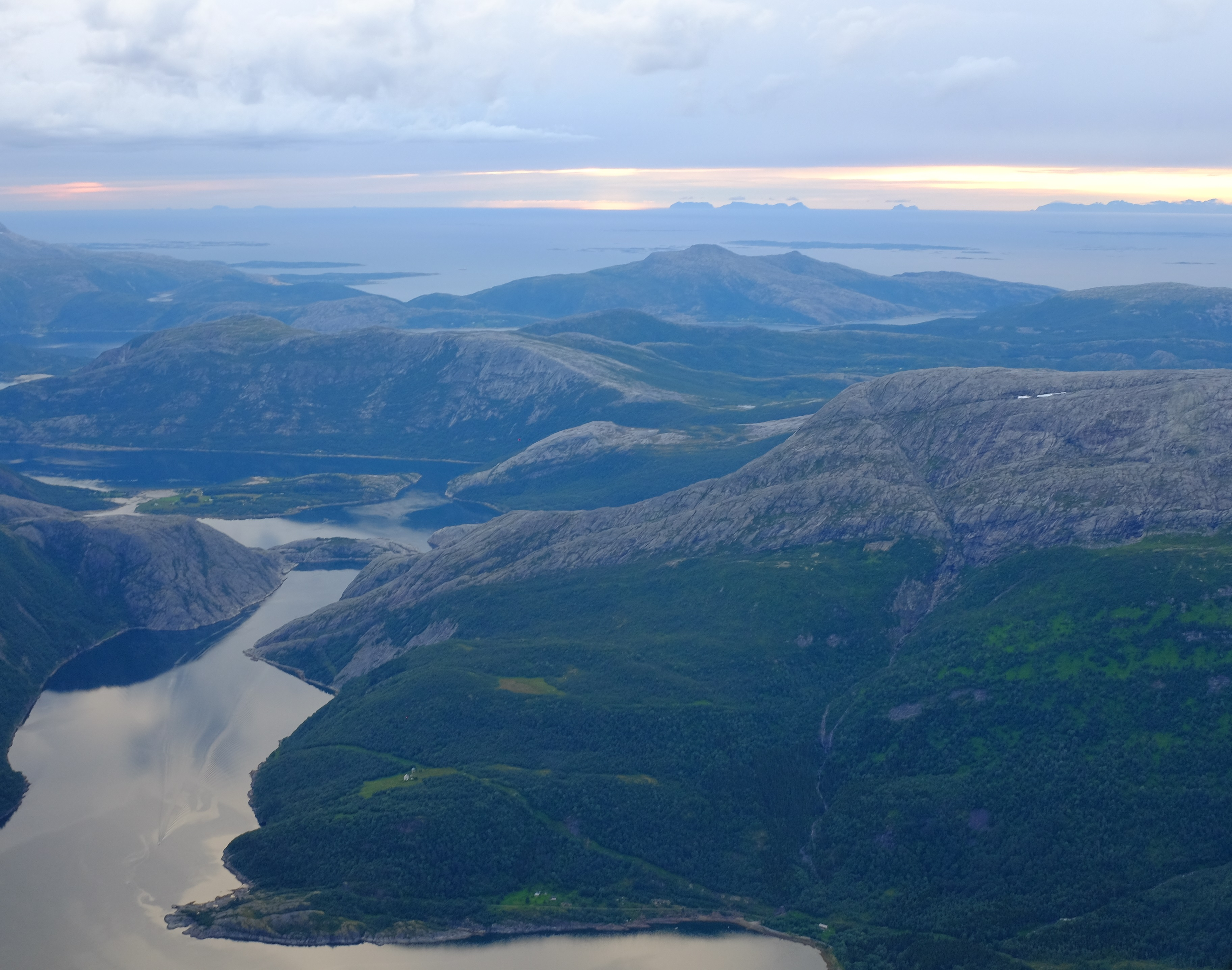 Beiarfjorden is a fjord of Nordfjorden in Gildeskål in Nordland. Fjord stretches 19 km eastwards to Tverrvika in the bottom of the fjord.